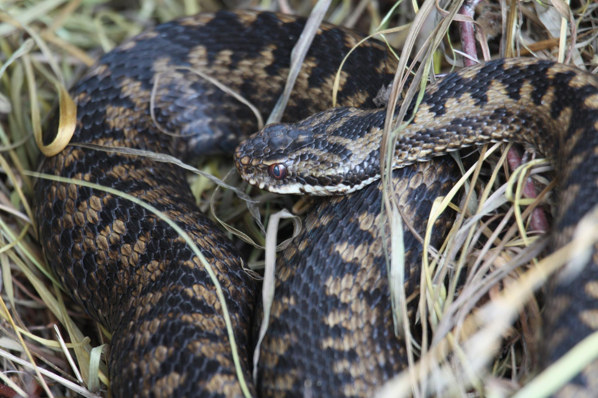 Common (European) Adder